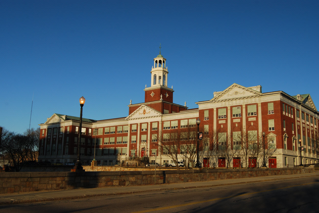 Tolman High School, Pawtucket, Rhode Island